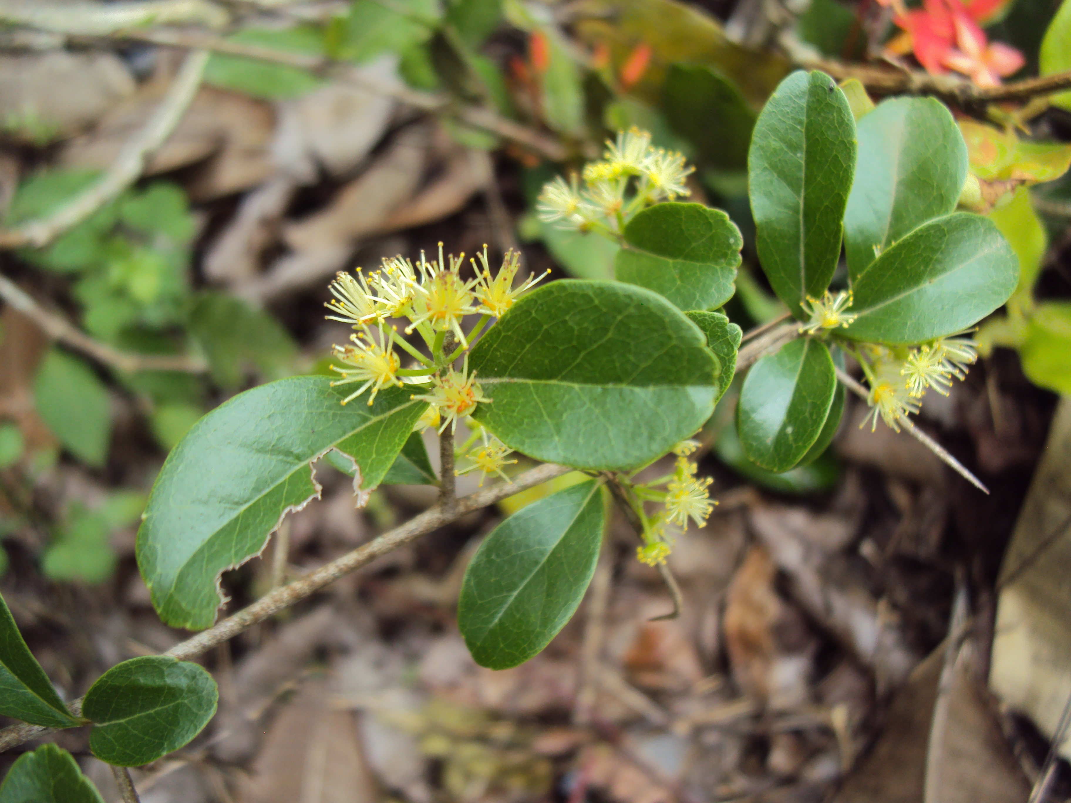 Flacourtia indica